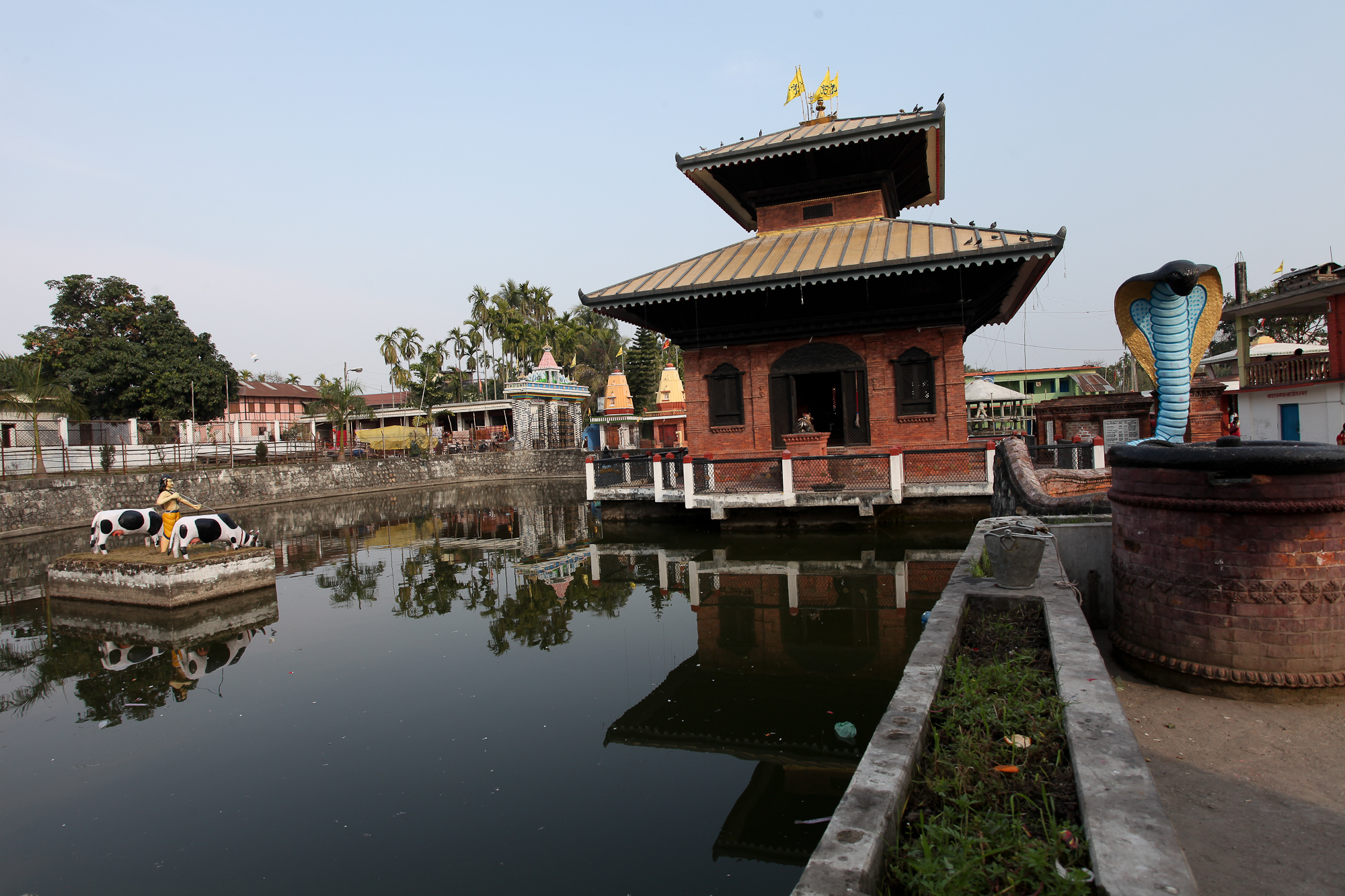 Arjun Dhara Temple Jhapa mechi zone